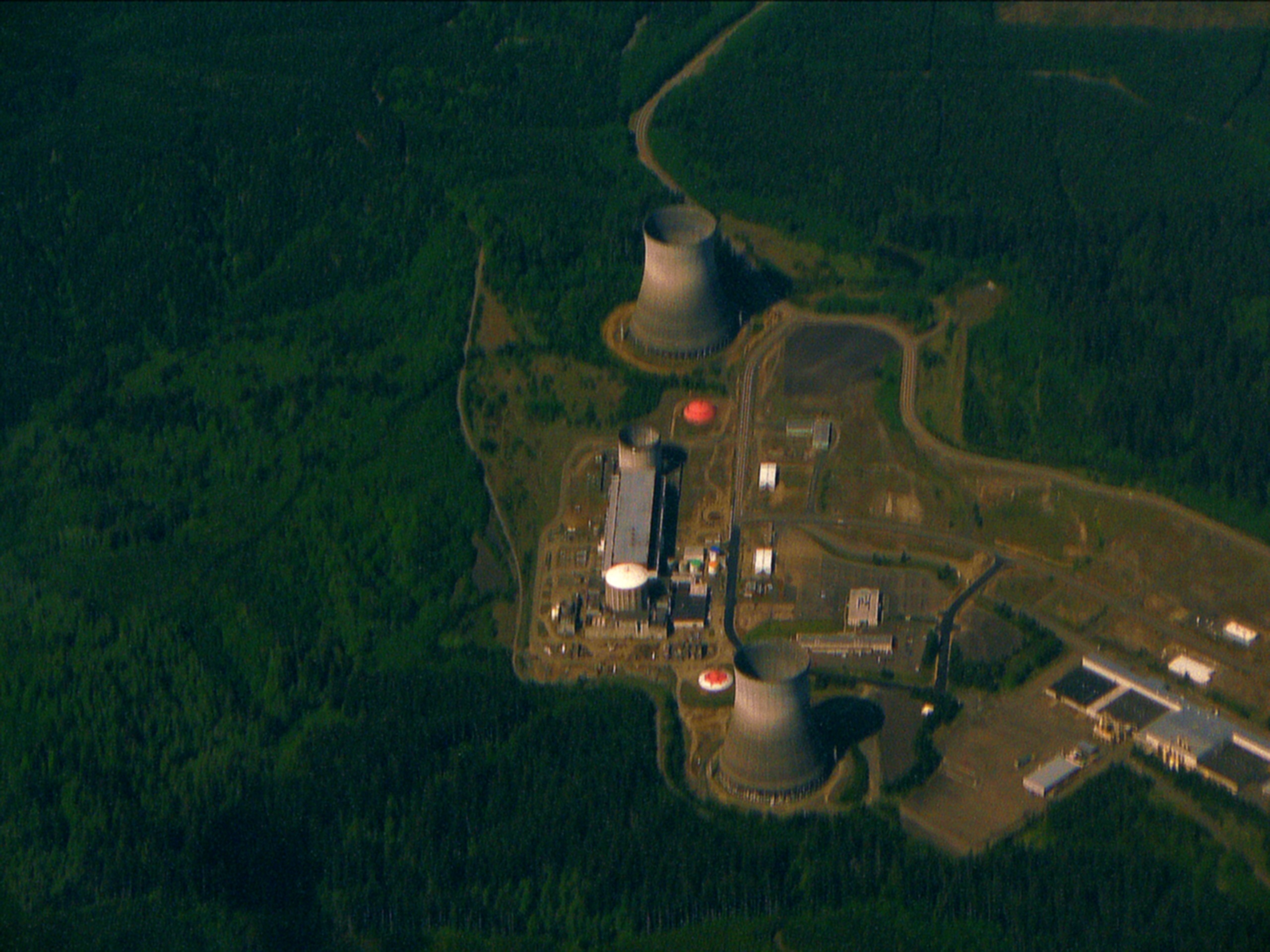 Satsop Development Park; formerly Washington Public Power Supply System Nuclear Power Plants 3 and 5; (Satsop, Washington)